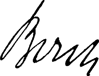 Signature of Carl Bosch